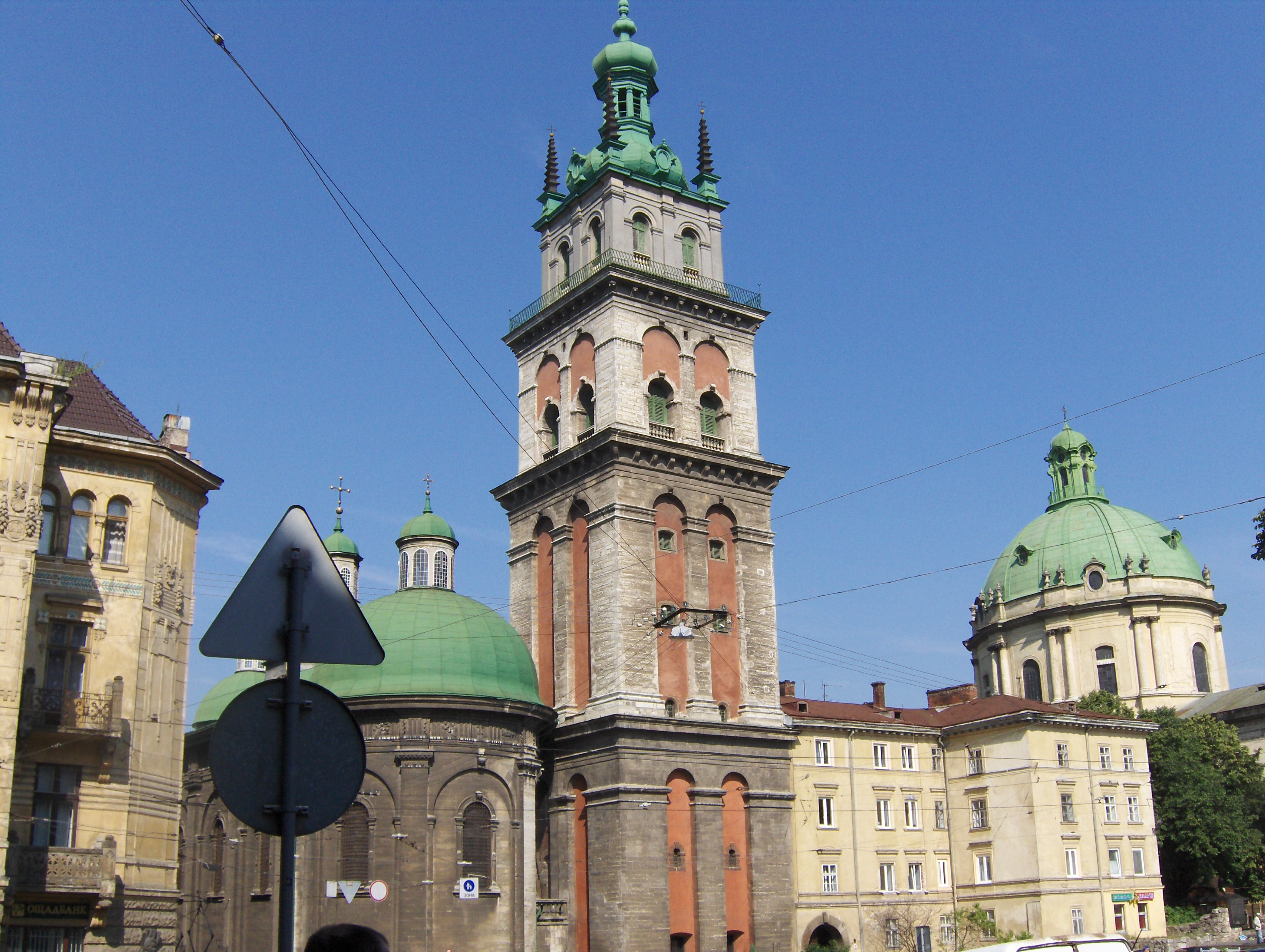 Orthodox church in Lviv, west Ukraine.